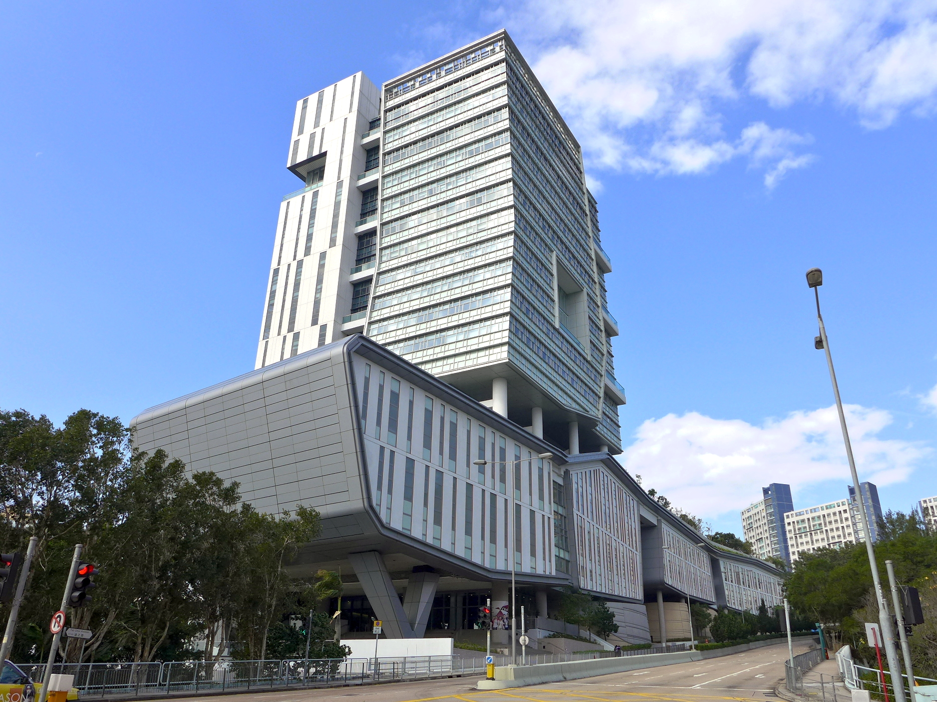 CityU Academic 3